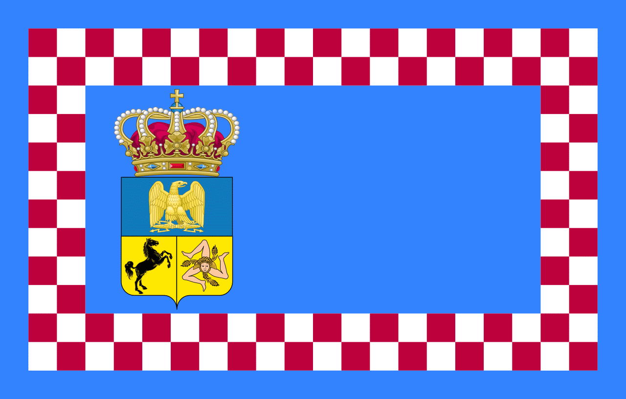 Flag of the Napoleonic Kingdom of Naples from 1811